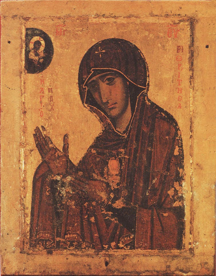 Icon of Panagia Macheriotissa